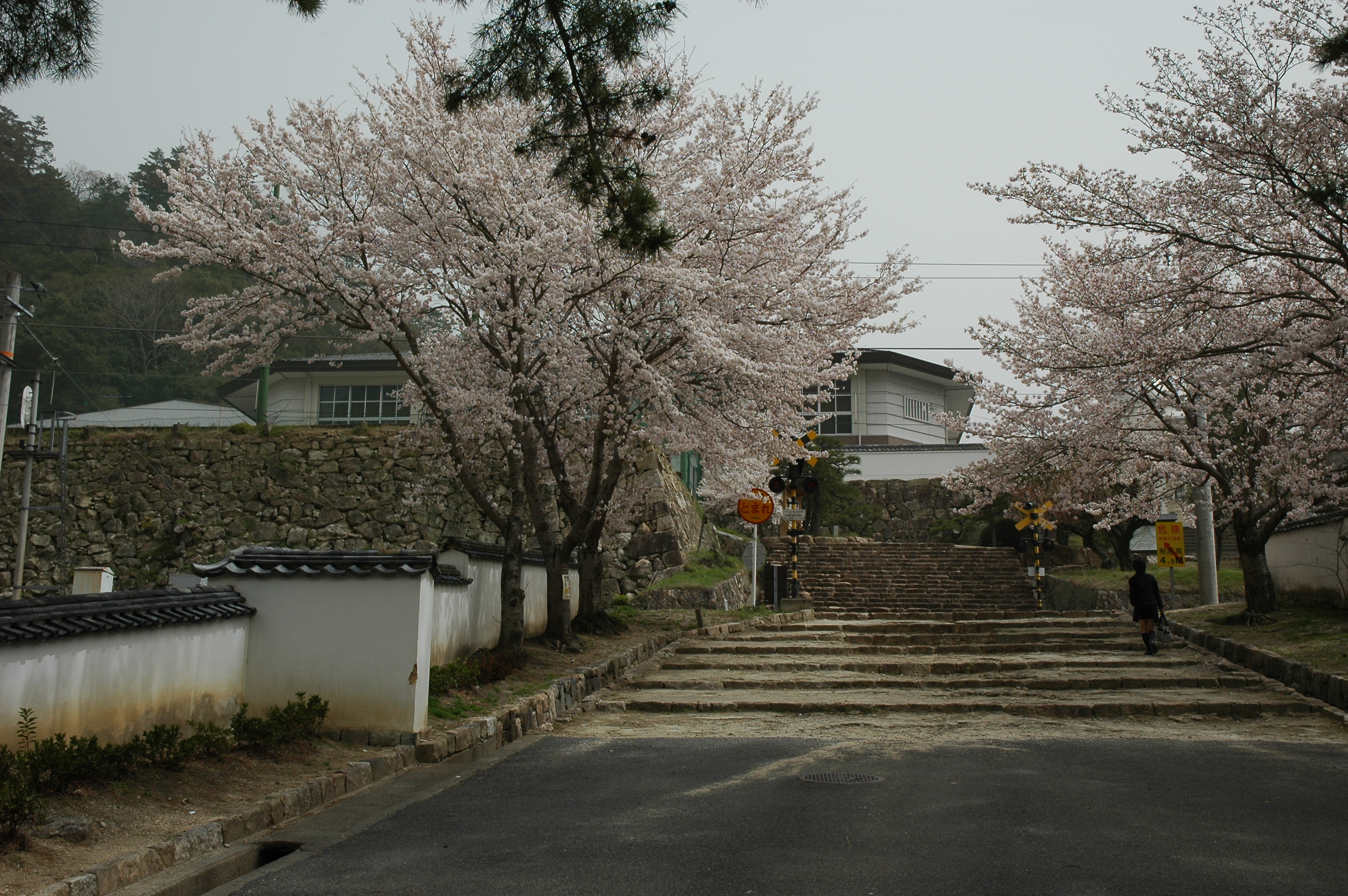 Onegoya (feudal lord palace) of Bitchū Matsuyama castle, Here is Takahashi high school now